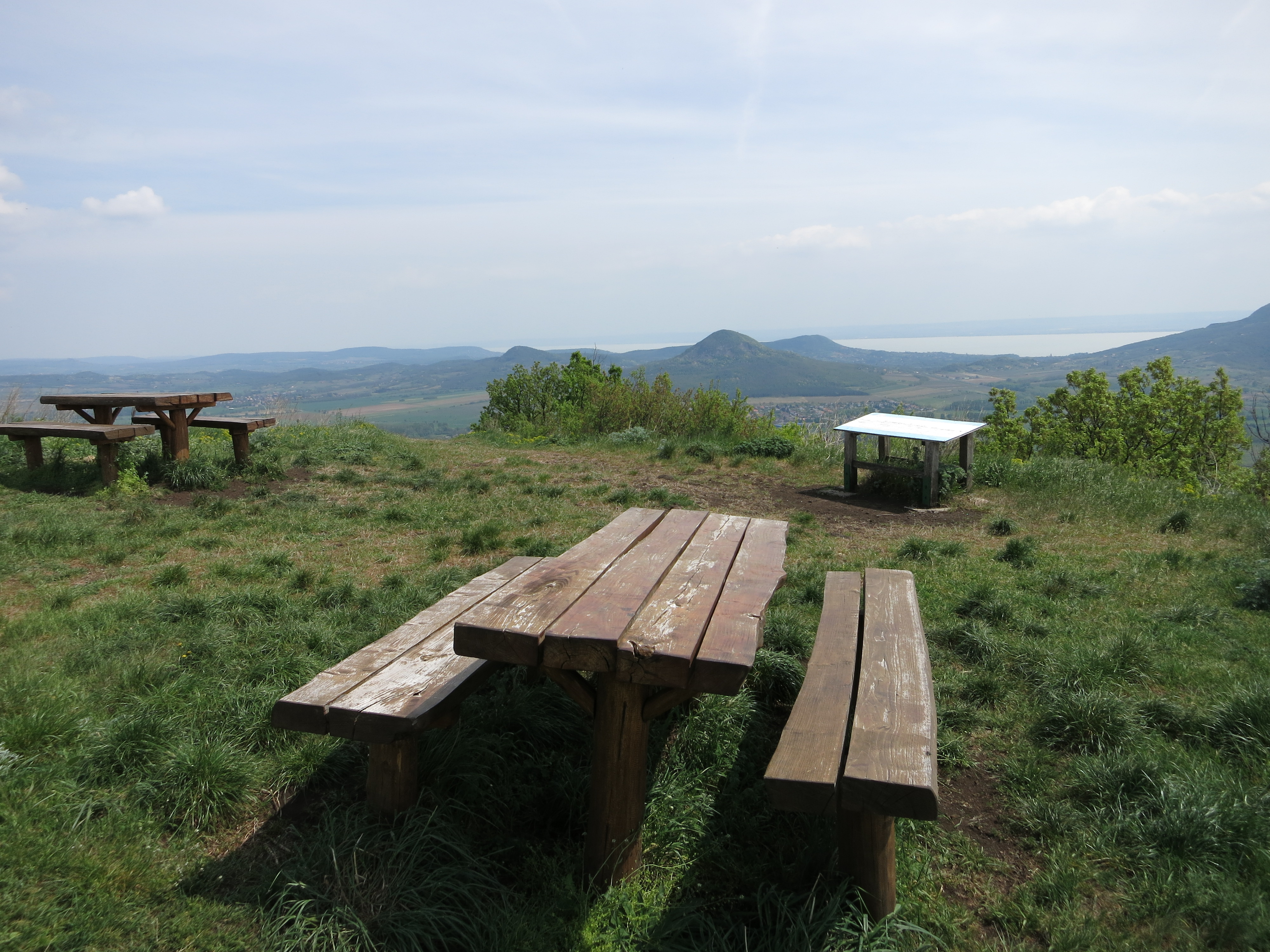 Szent György hegy, mountain in Hungary, on Top